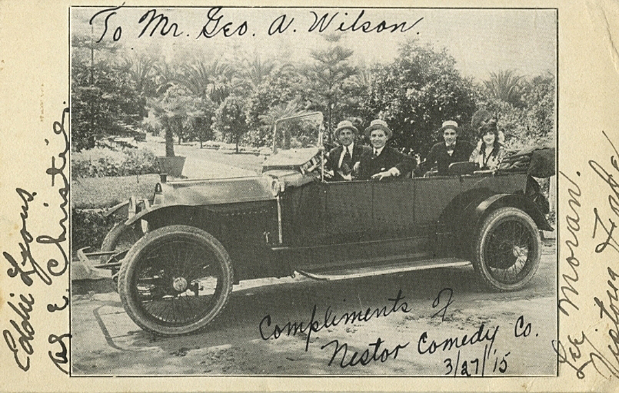 Al E Christie Eddie Lyons Lee Moran Victoria Forde (1915)